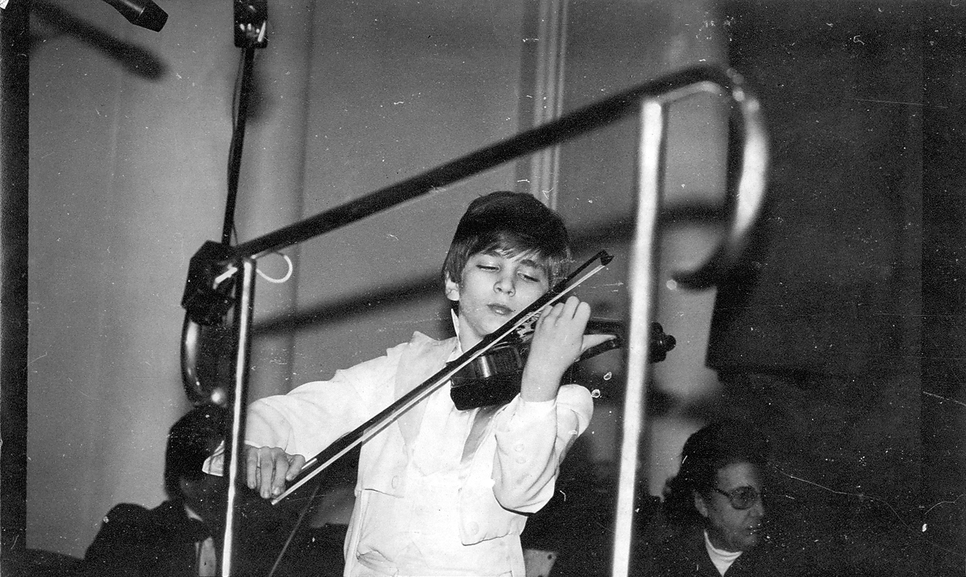 Stefan Milenković as a boy, at a concert at the Niš Symphony Orchestra Hall in the late 80's